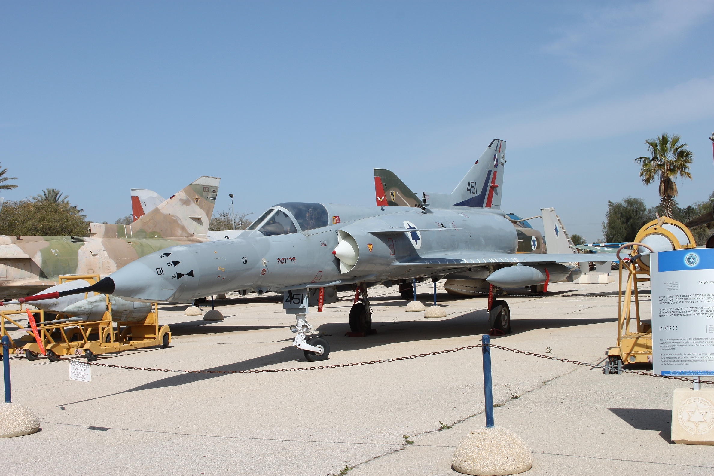 Reconnaissance Kfir 451 "Prism" of the Smashing Parrot squadron, at the Israeli Air Force Museum in Hatzerim